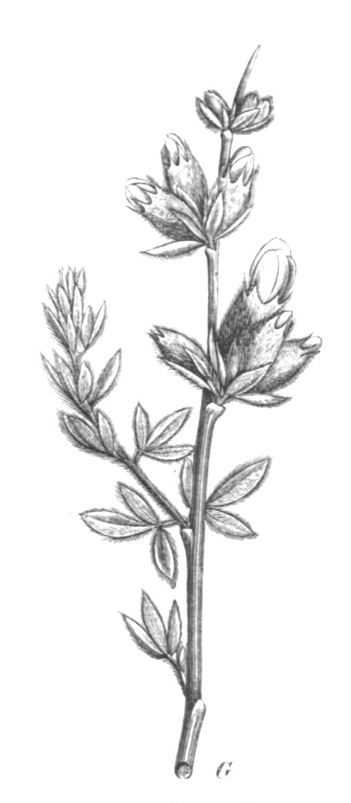 Illustration from book